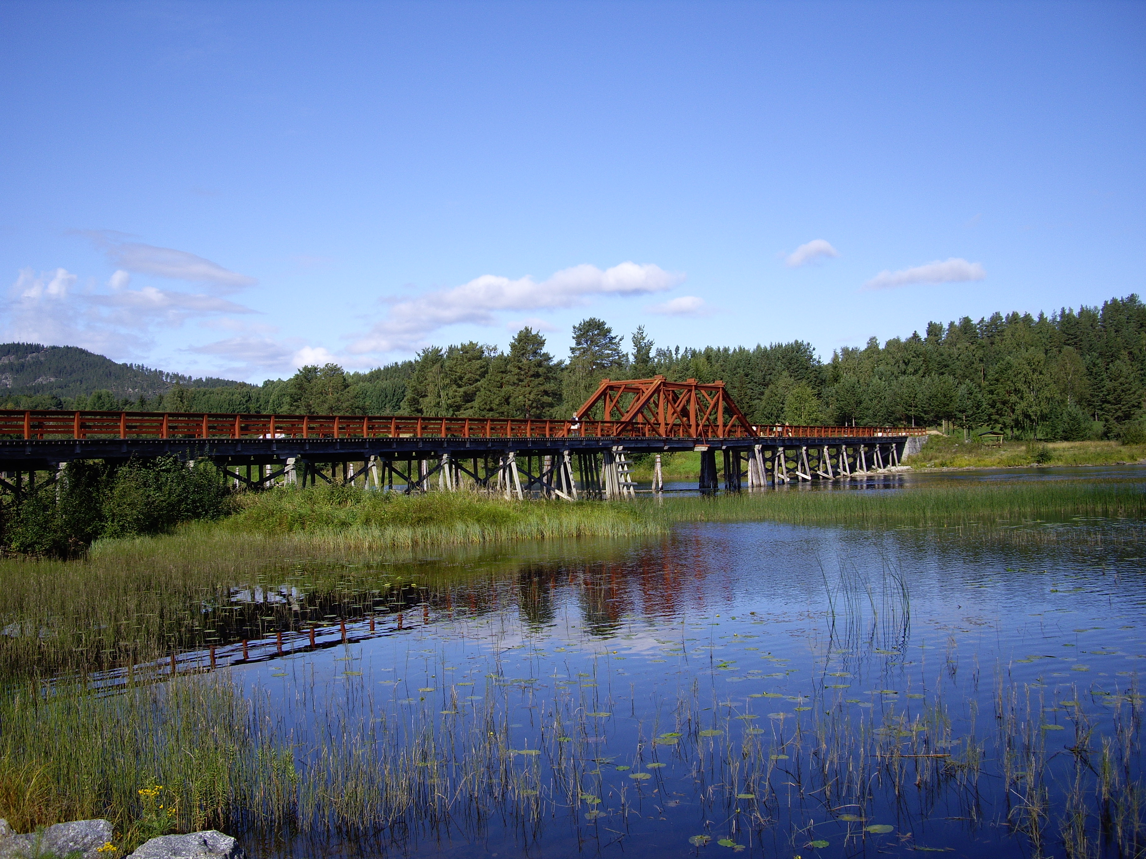 The wood bridge Vikbron just outside Fränsta, Sweden